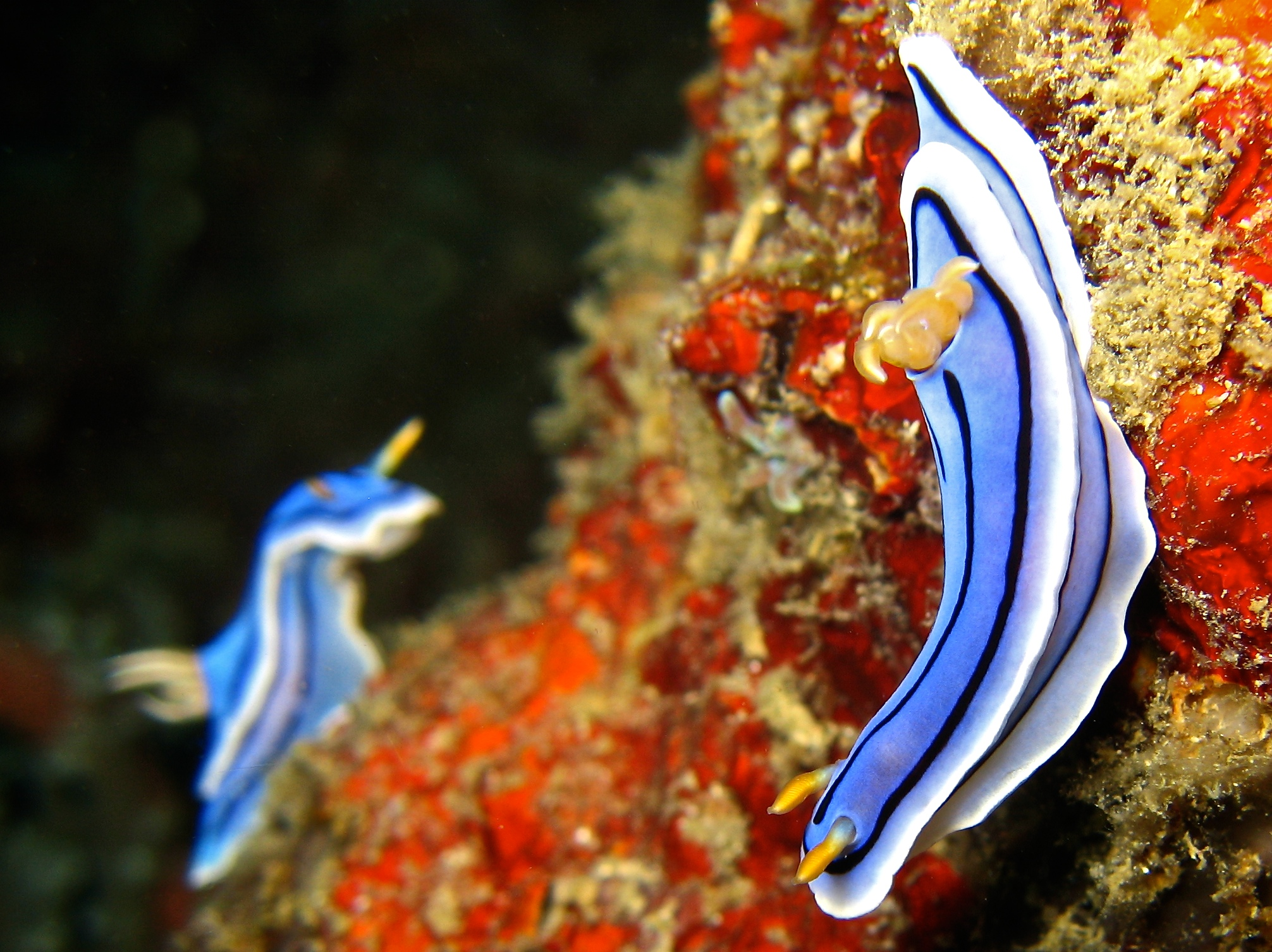 Chromodoris lochi from the 'Dungon Wall' divesite, Puerto Galera, the Philippines. There is some colour variation among this species.